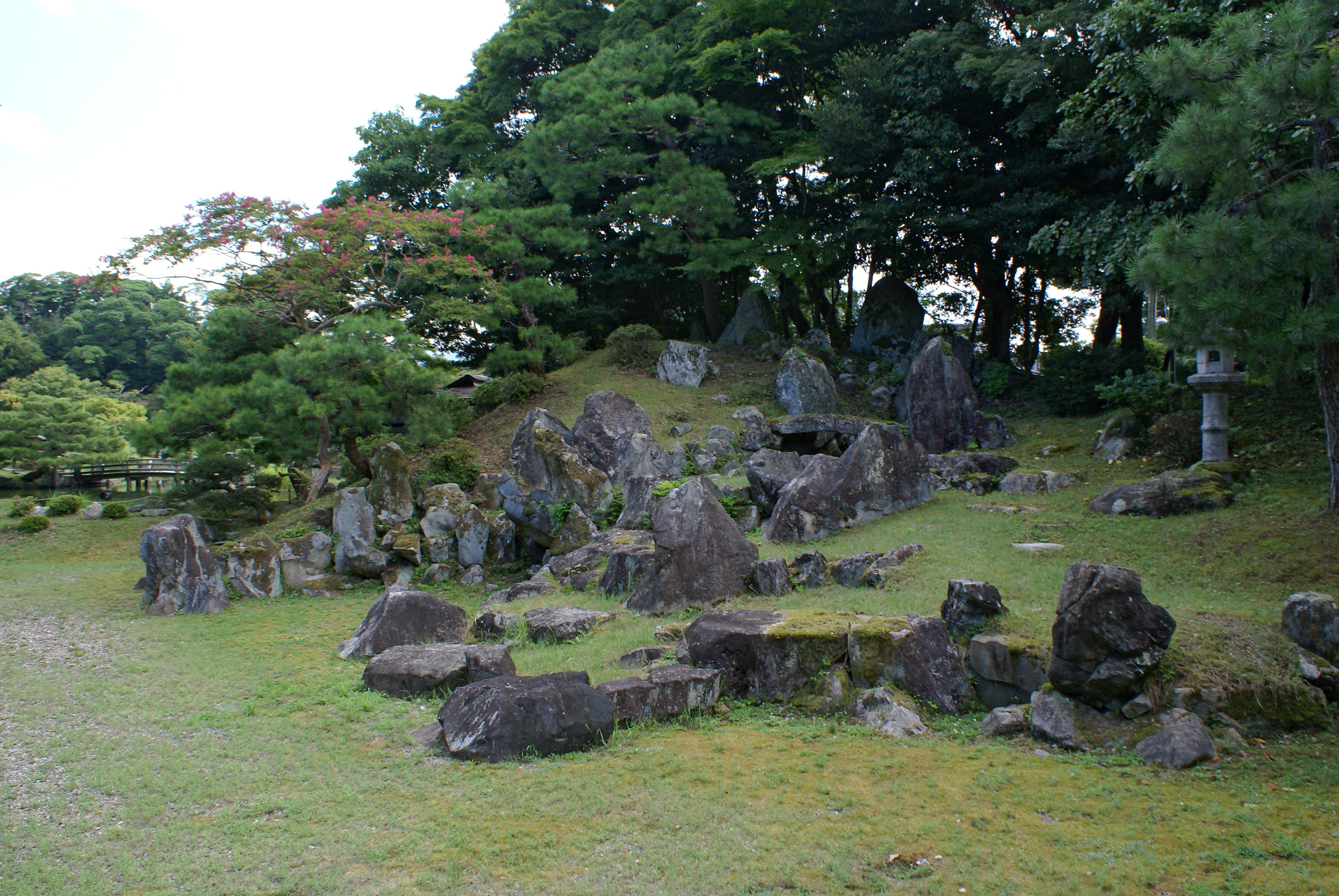 Rakurakuen in Hikone, Shiga prefecture, Japan